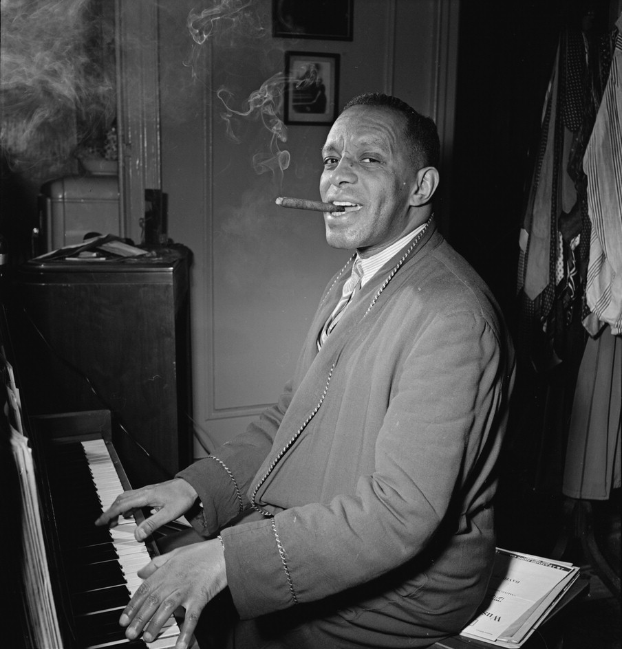 Portrait of Willie Smith in his apartment, Manhattan, New York, N.Y.